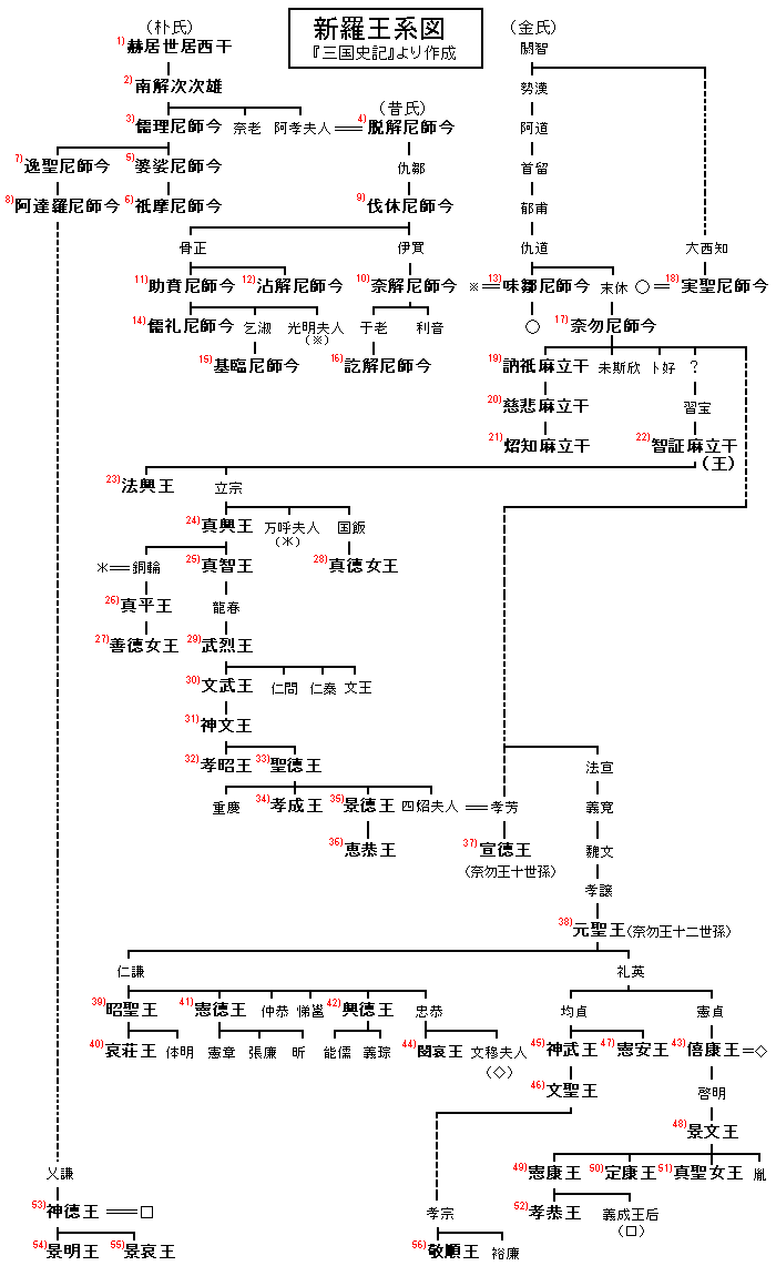 the geneology of Silla / 新羅王系図 700*1150px